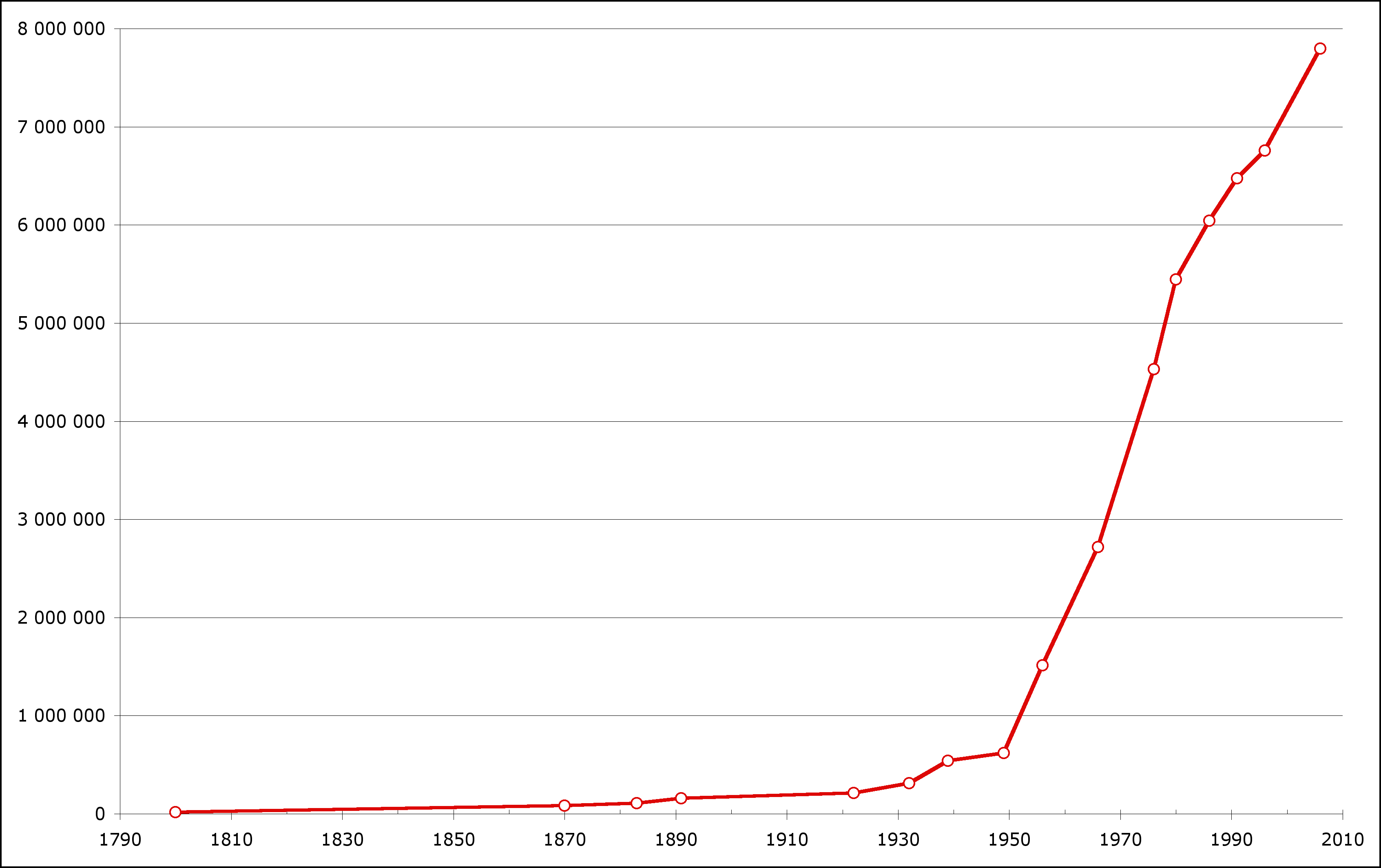 Tehran's population.